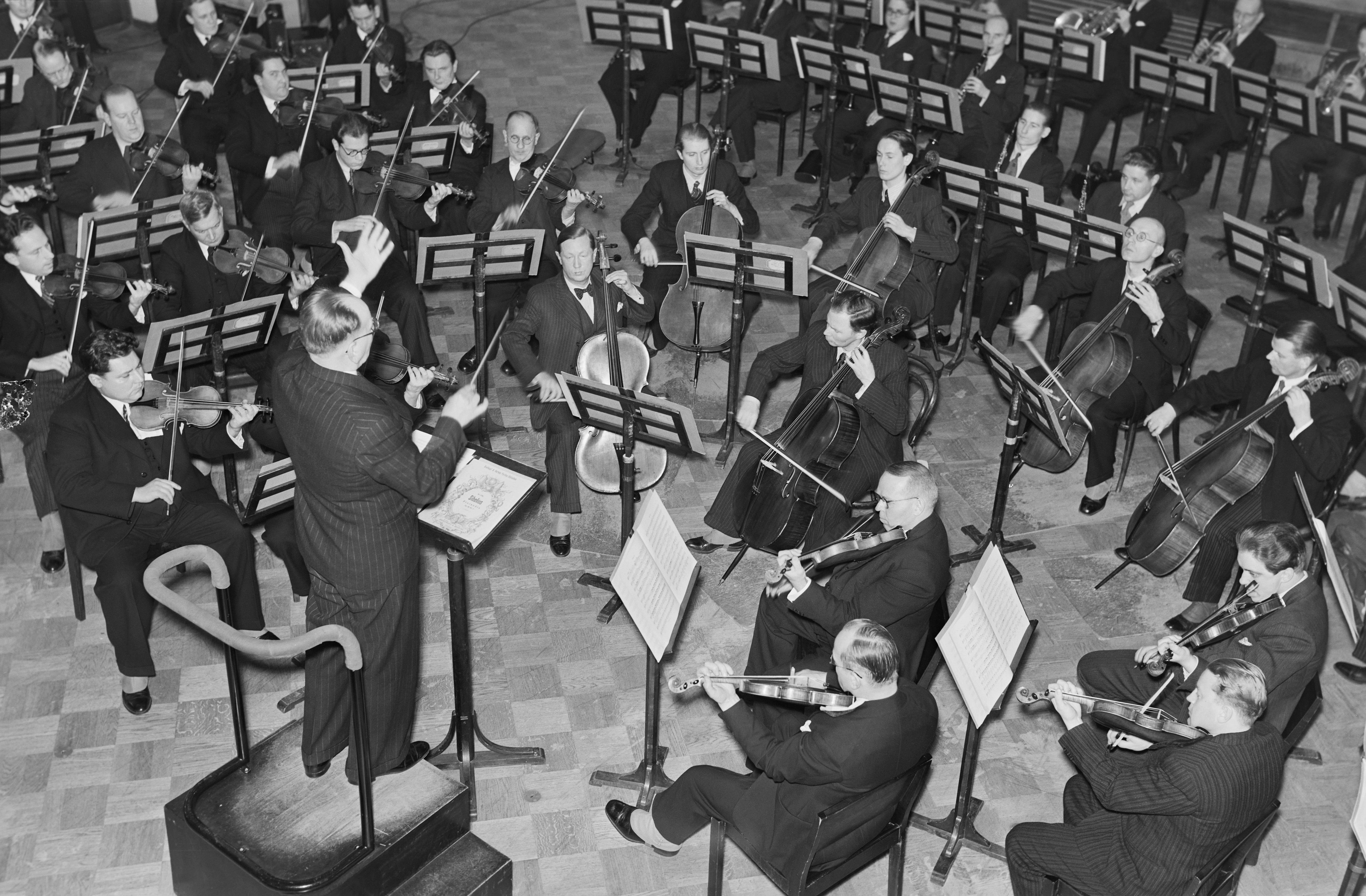 The Finnish Radio Symphony Orchestra on 1 January 1939. Conductor: Toivo Haapanen.